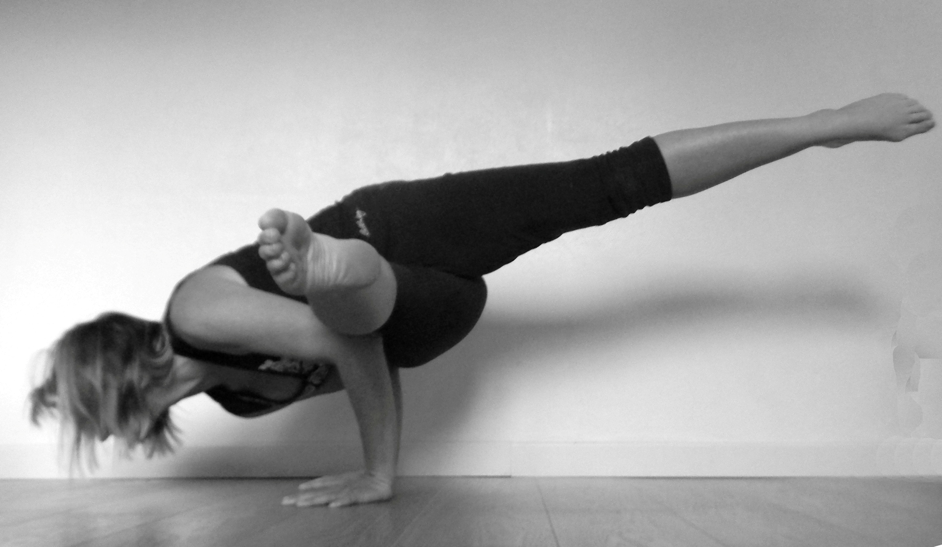 twisted one legged arm balance yoga posture